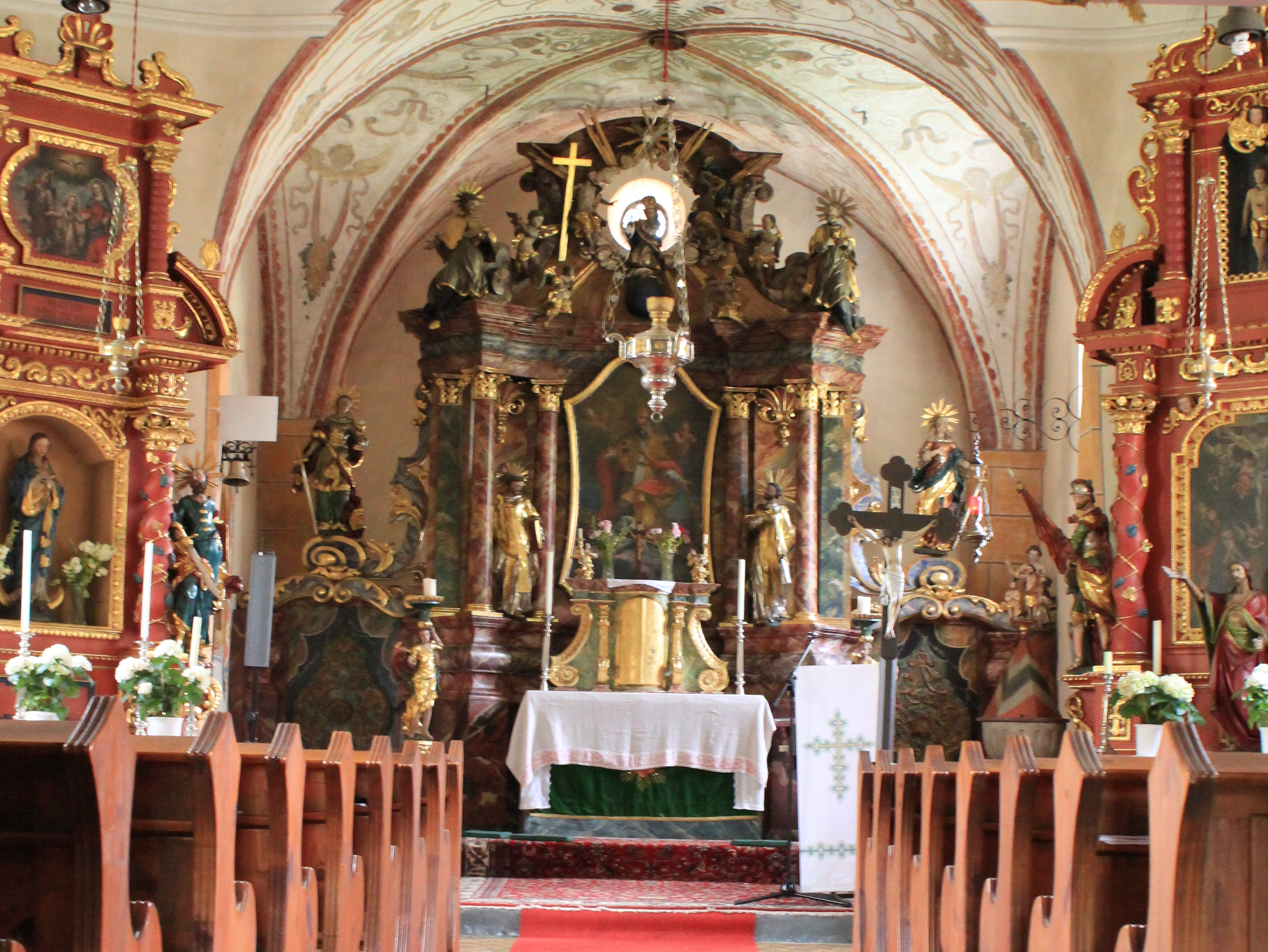 Parish church in Ingolsthal in the community Friesach - Interior